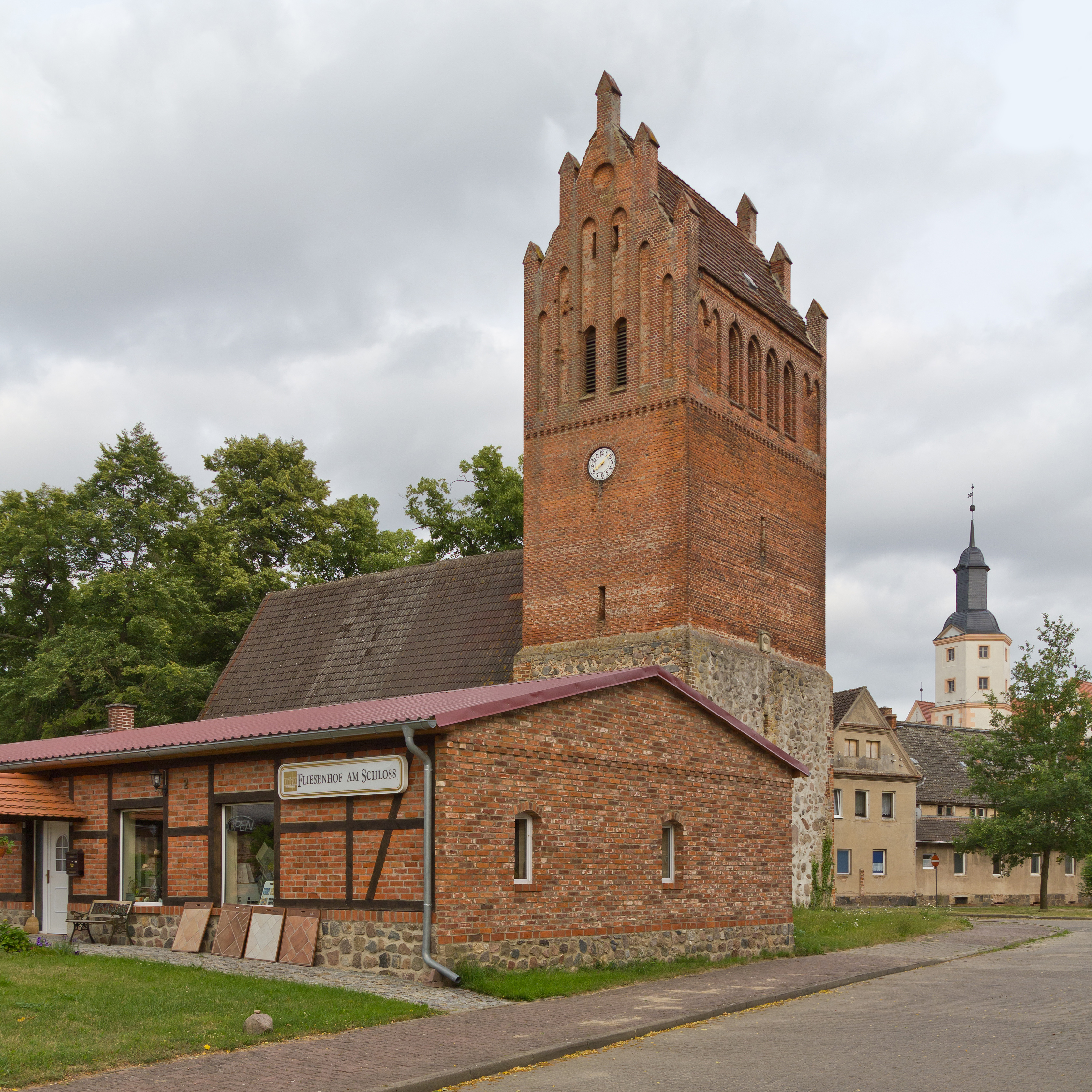 Church in Demerthin/Gumtow, Brandenburg, Germany.